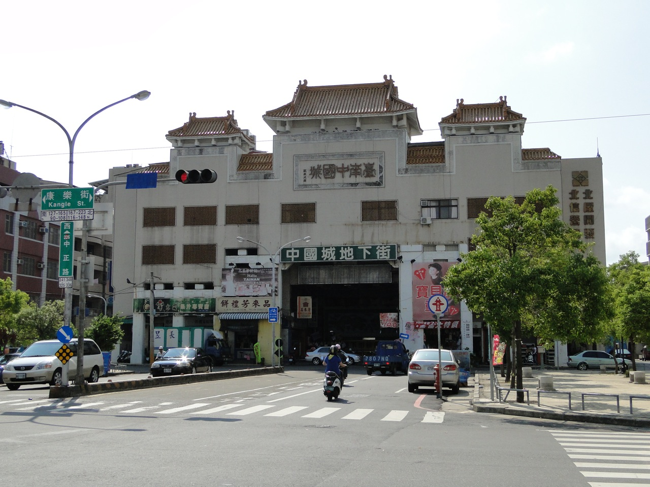 Chinatown in Tainan. Taiwan.